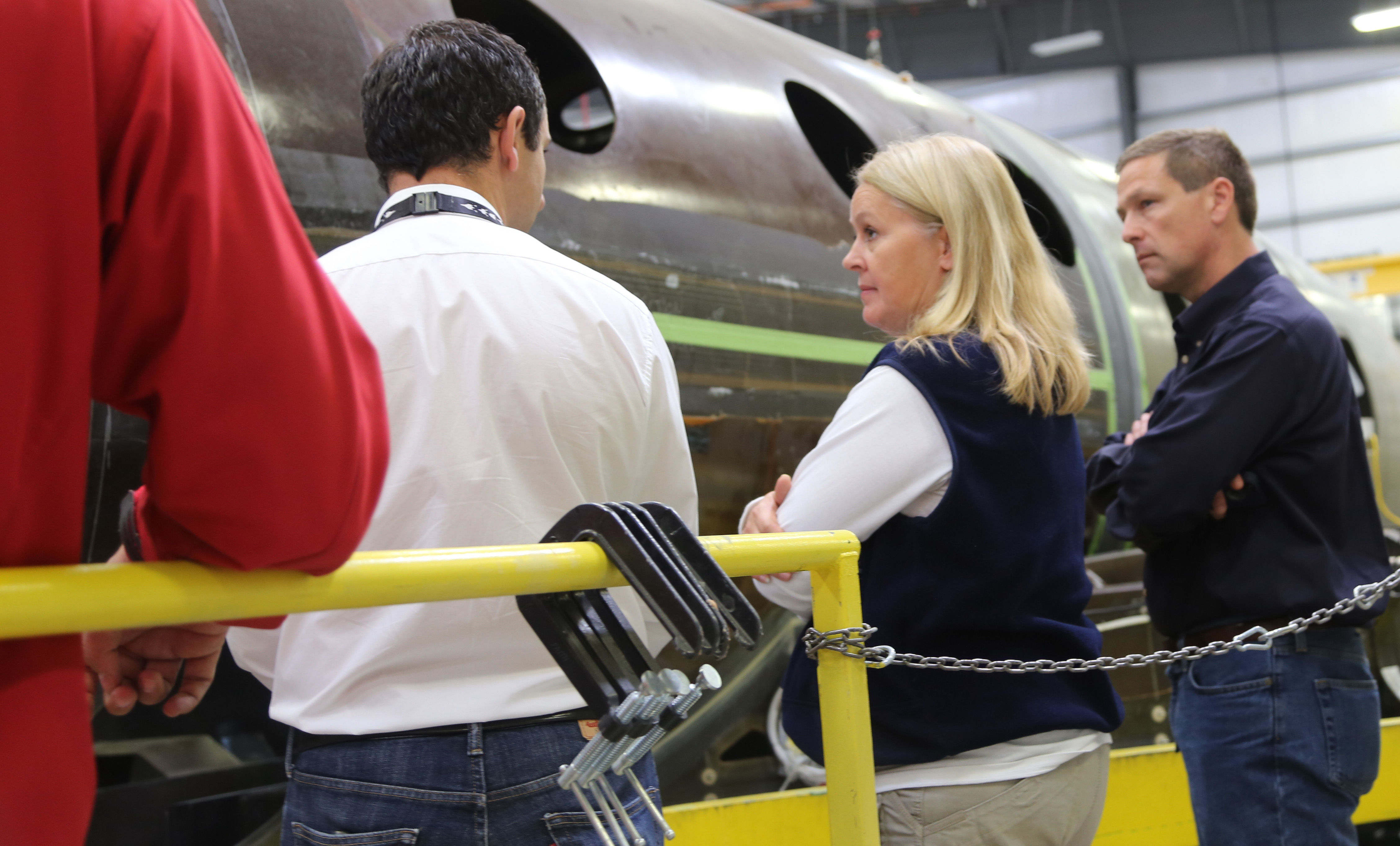 Lorenda Ward, investigator-in-charge of the SpaceShipTwo accident, in The Spaceship Company's production facility